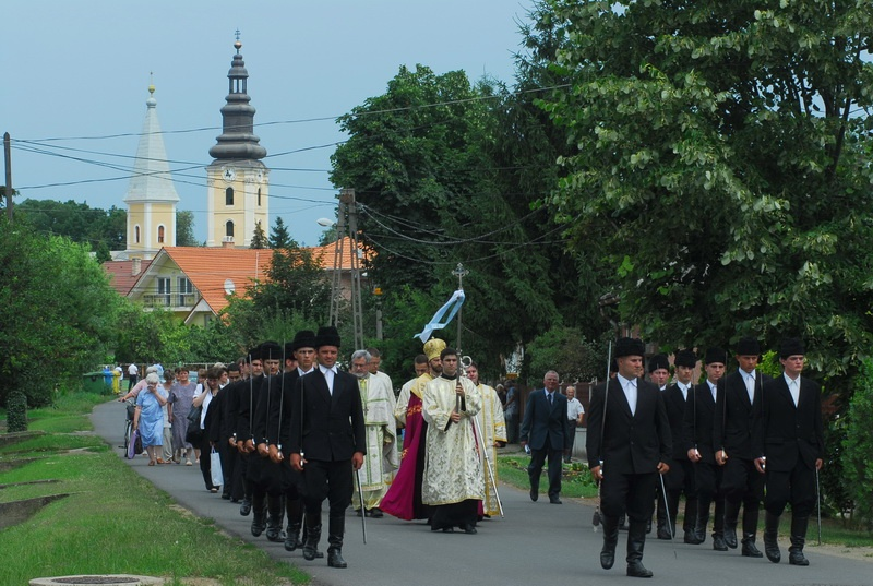 The procession after the ordainment of Fülöp (Philip), Greek Catholic bishop of Hajdúdorog, Hungary. After the ceremony the new bishop visited the secondary school of the Saint Basil Educational Center. The young men dressed in black uniform and holding swords are the so-called Soldiers of Christ. The traditional unit usually has a protocol role: they keep the way free in front of the bishop. Usually the Soldiers of Christ appear during the Easter celebrations in the Greek Catholic traditions. The members of the unit are local unmarried men who take this role voluntarily since it is great honor.